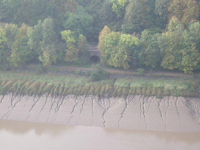 Western bank of the Avon, near Bristol. Taken from Clifton Down, across the Avon Gorge, about 1.5km North of Clifton Suspension Bridge. Leigh woods, the Avon Cycle Way and a single track railway in view. The bridge goes over an entrance to an old quarry, now used as a rifle range.